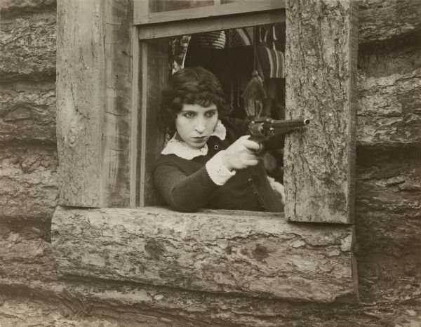 Edith Storey in As the Sun Went Down (1919) - publicity still